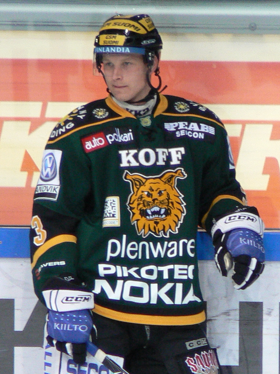 Finnish ice hockey defenseman Toni Niemi of Ilves Tampere in September, 2008.